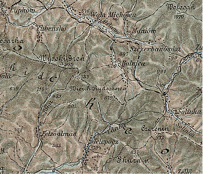 Cart from 1899 with villagxe Osadné sub la hungara nomo Telepócz